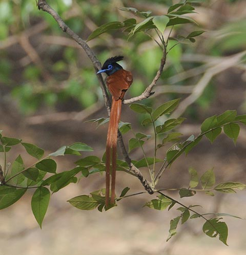 A male Asian Paradise Flycatcher (Terpsiphone paradisi) in rufous phase captured at Jogi Mahal, Ranthambhore National Park, Rajasthan.